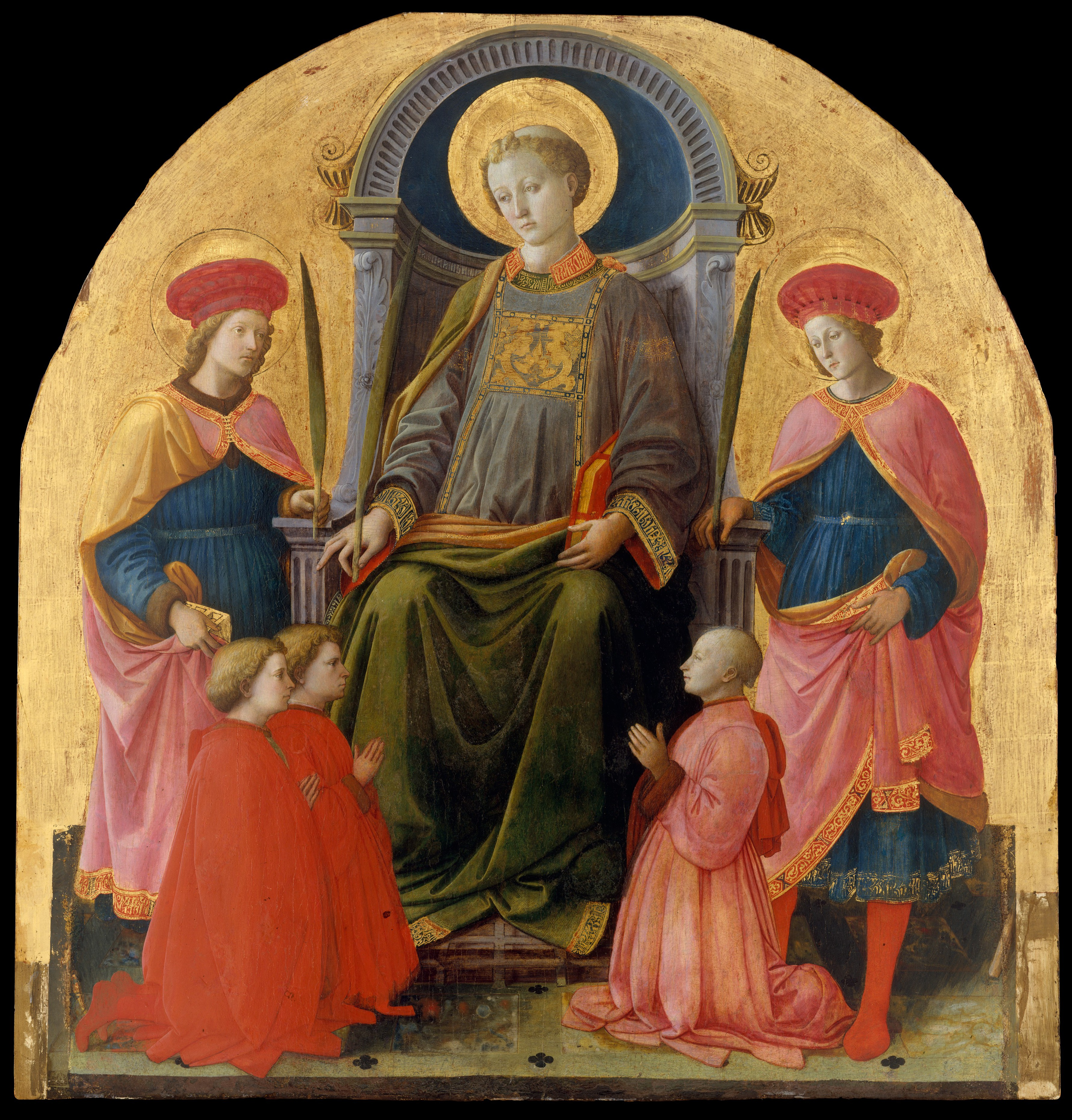 Painting, altarpiece; Paintings